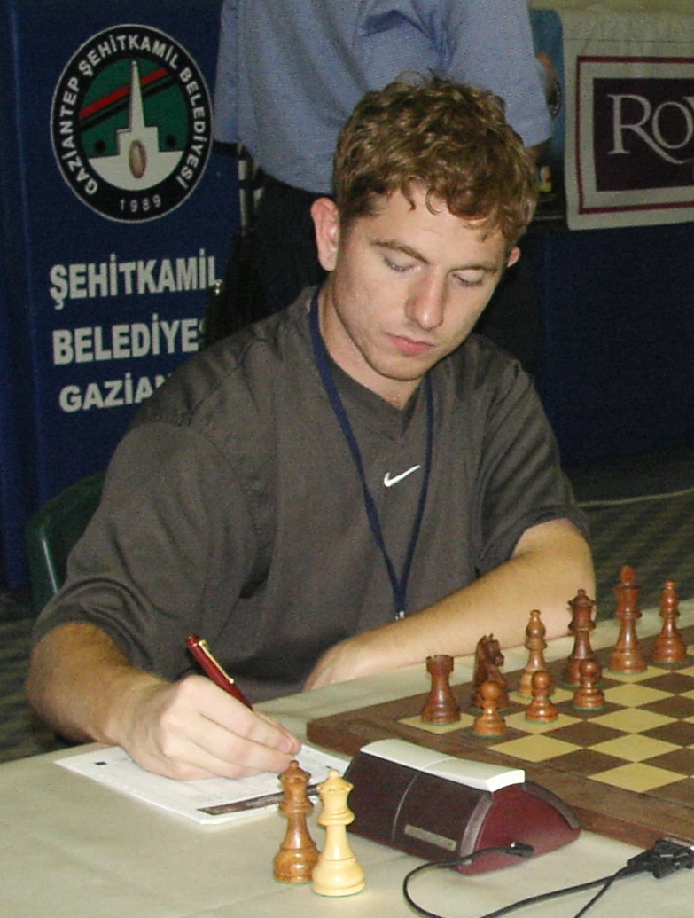 GM Ante Brkic Croatia, World Junior Chess Championship, Gaziantep 2008